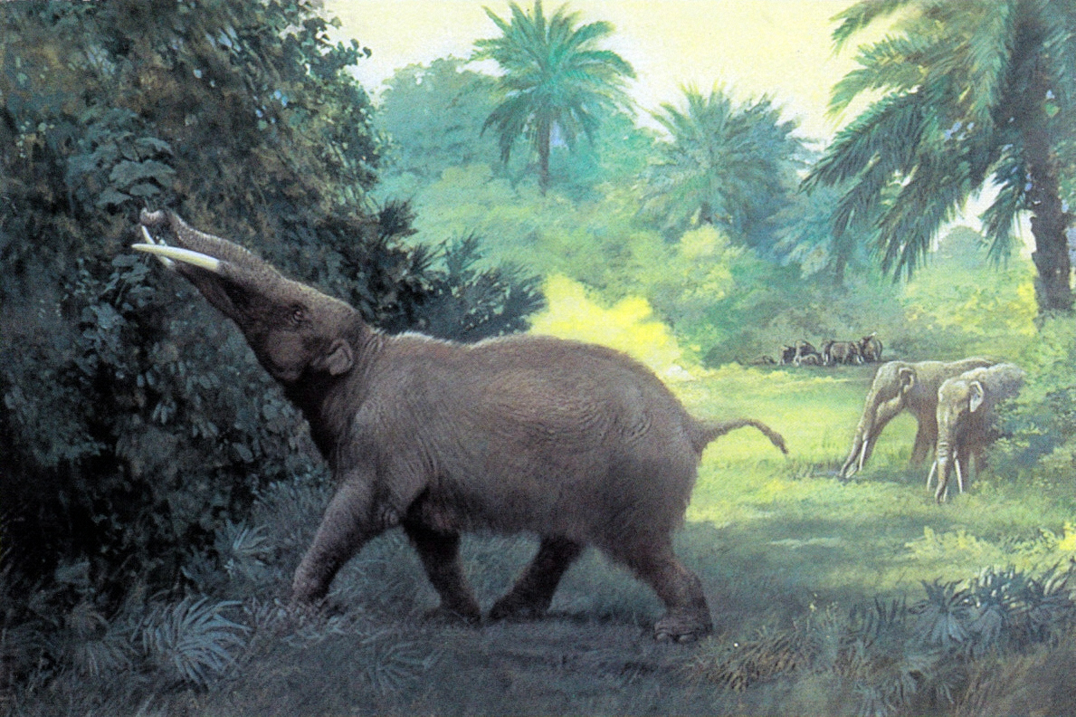 Gomphotherium angustidens, gouache on paper, American Museum Natural History.